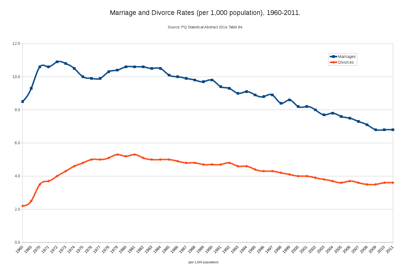 This figure shows marriage and divorce rates (per 100,000 population) in the US from 1960-2011.